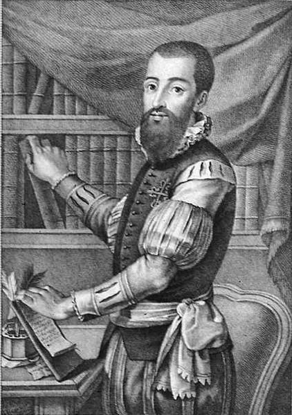 Garcilaso de la Vega, sobrino del poeta toledano